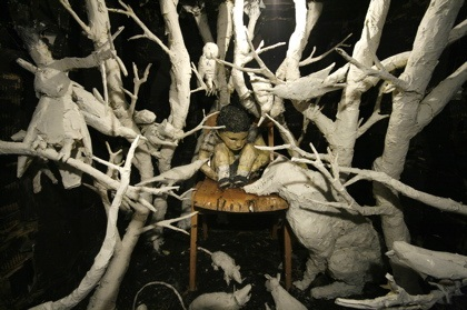 Cristobal León and Joaquín Cociña, Der Kleinere Raum, 2009